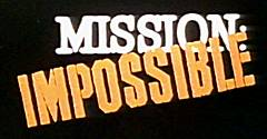 Logo for the long-running television series, Mission: Impossible, produced by Desilu in association with Paramount Television. (from